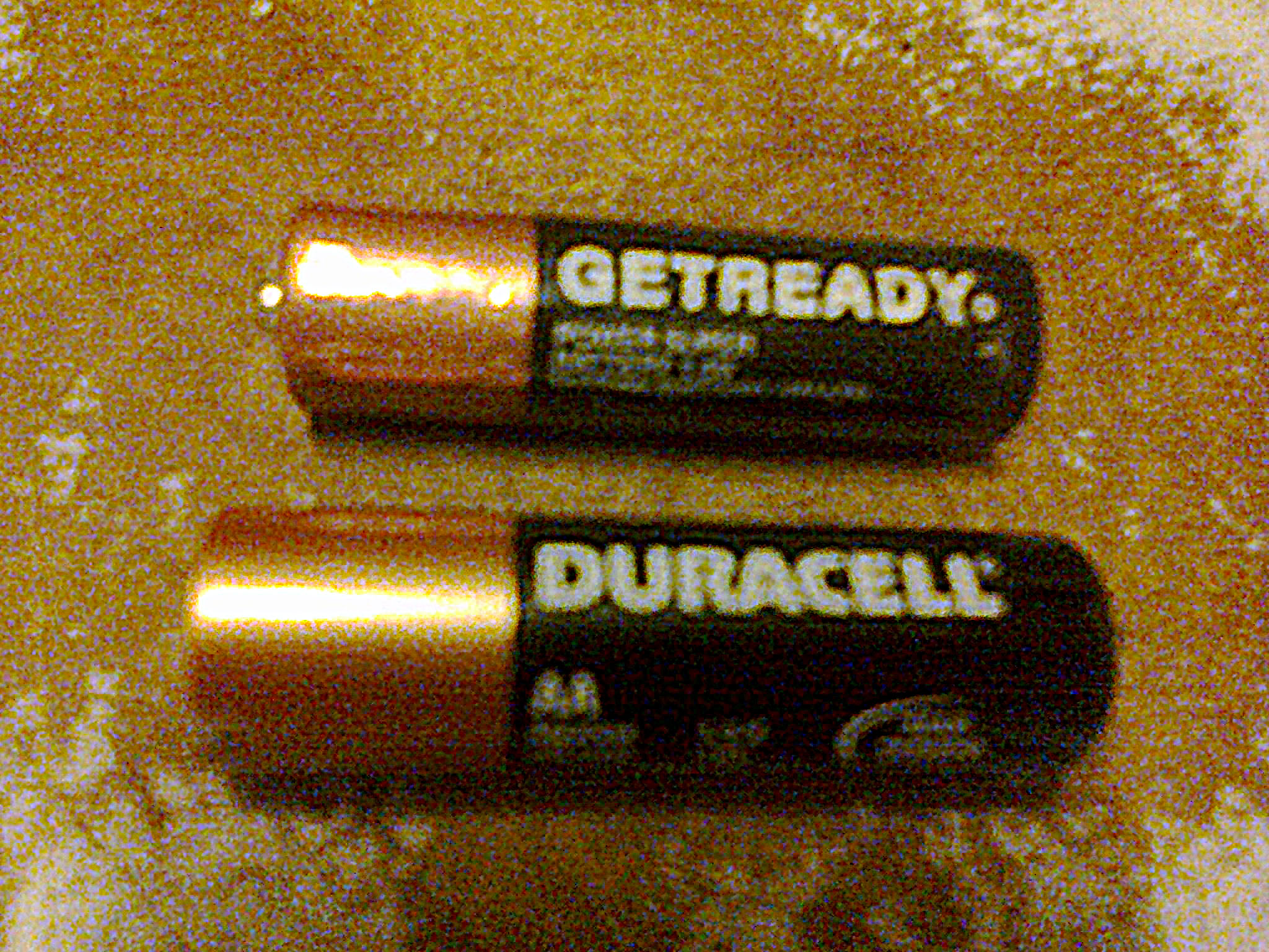 A Duracell battery underneath a counterfeit "Getready" battery